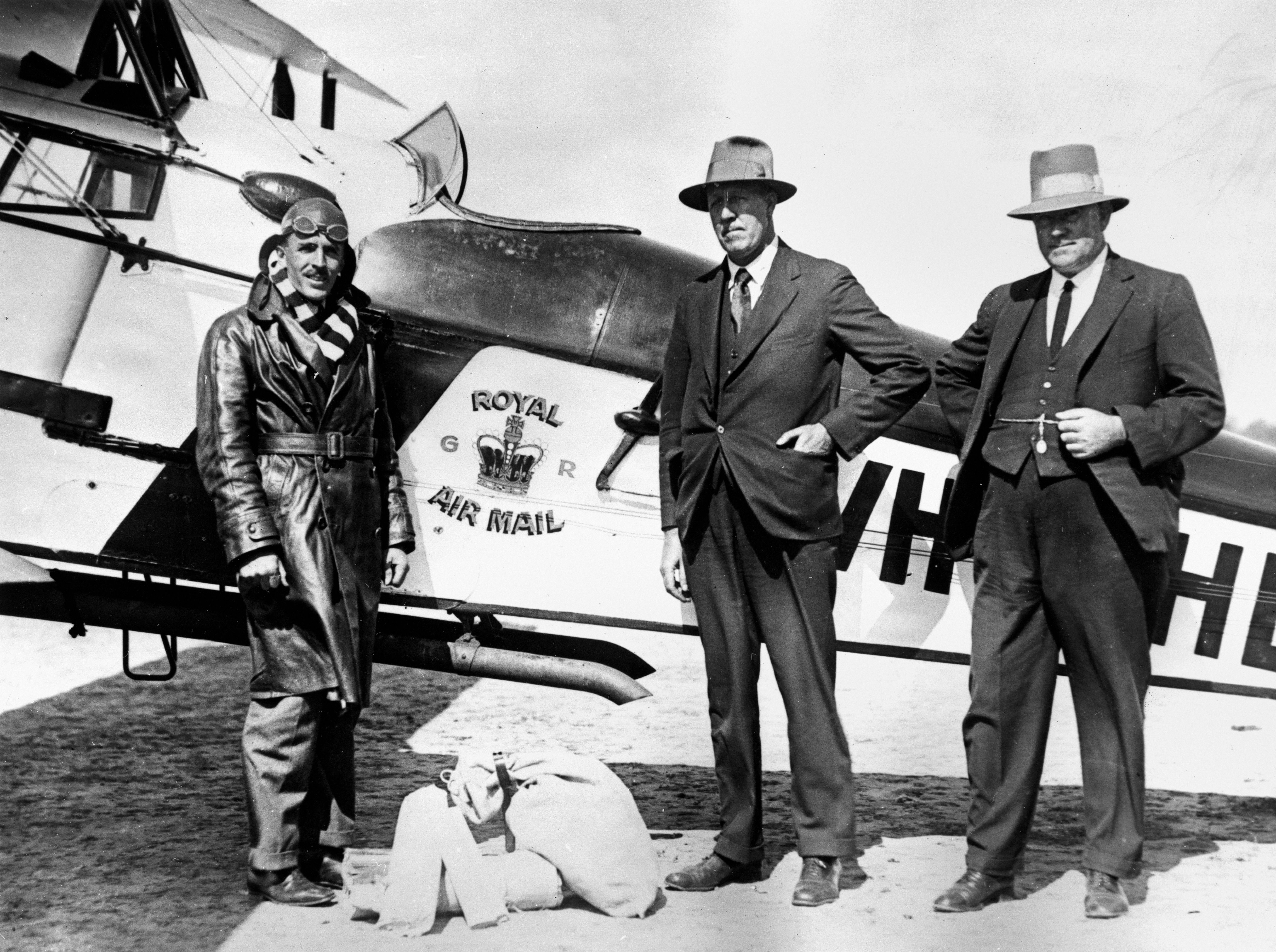 Mayor Thomas J. Lee receiving Rockhampton's first air mail at Connor Park. Pilot on the left with the scarf is Lester Brain who worked for Qantas for most of his flying career. The aeroplane is a De Havilland DH.50. (Description supplied with photograph.)